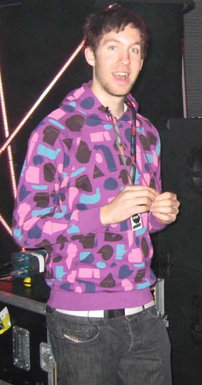 Calvin Harris in September 2007.